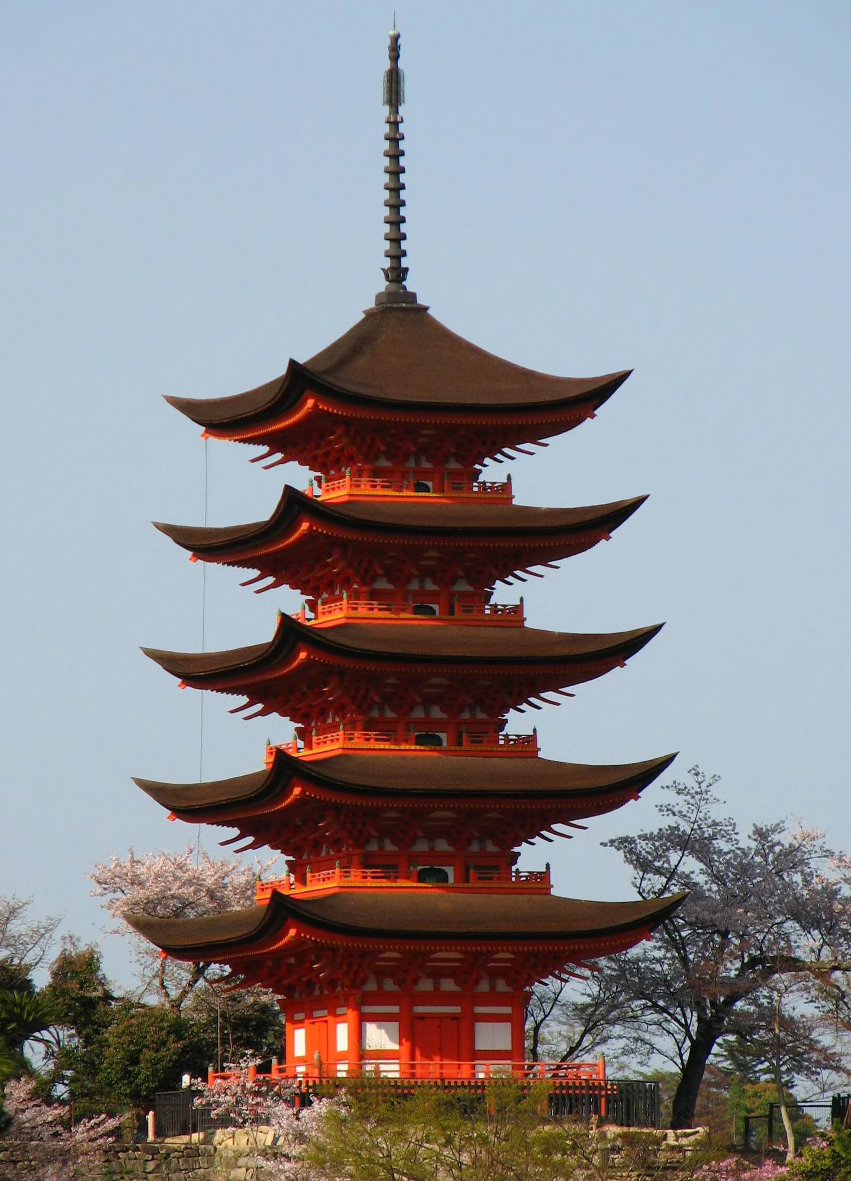 Goju-no-to Pagoda, Miyajima Island, Hiroshima Prefecture, Japan